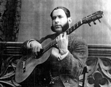 Silverio Franconetti (1831-1889) - known flamenco singer. Silverio’s voice was called “the honey from Alcarria”. Note: It is beleved that the photo shows Silverio Franconetti but it hasn't proved sufficiently.